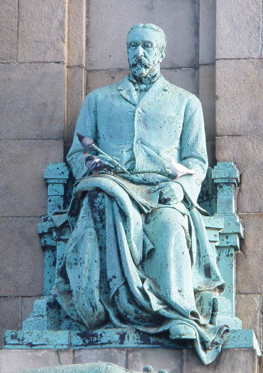 Monumento a Evaristo de Churruca, en Las Arenas (Vizcaya)